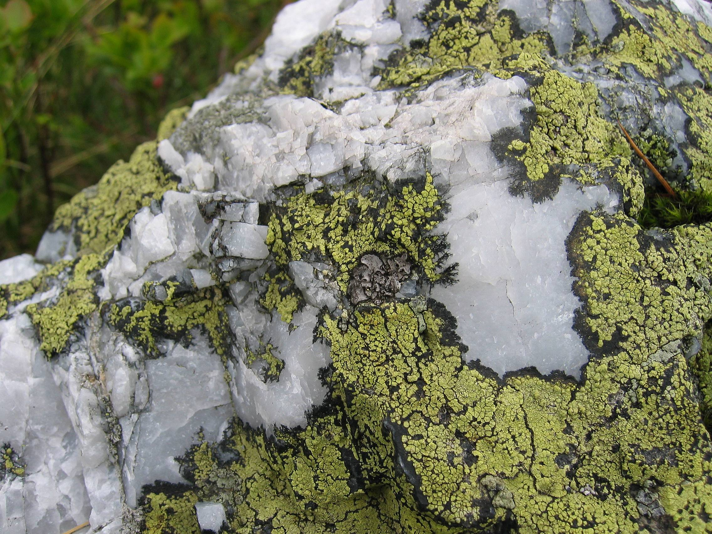 Rhizocarpon geographicum on quartz; Habitat: Stein am Mandl, Styria, Austria